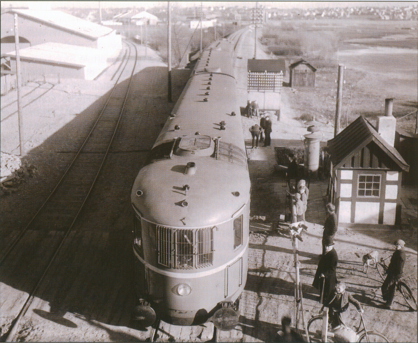 Lyntog (express train) Litra MS being tested in Randers.